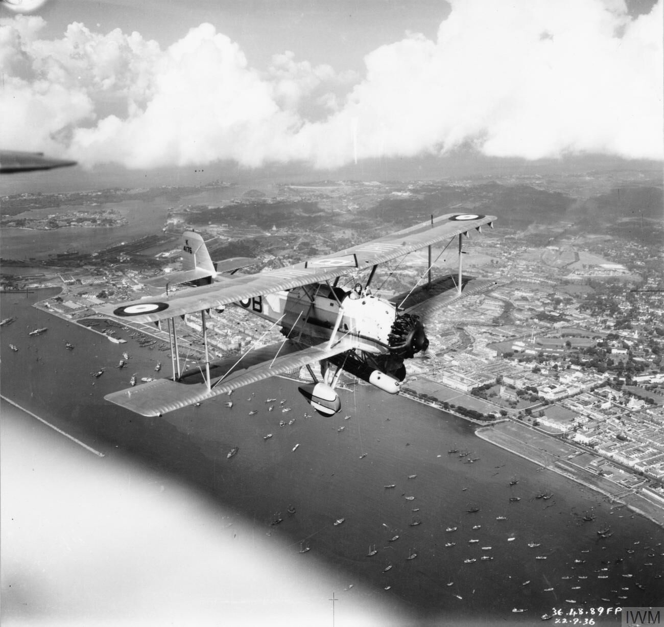 A Vickers Vildebeeste Mk III aircraft of No.36 Squadron RAF in flight over Singapore City, Singapore.